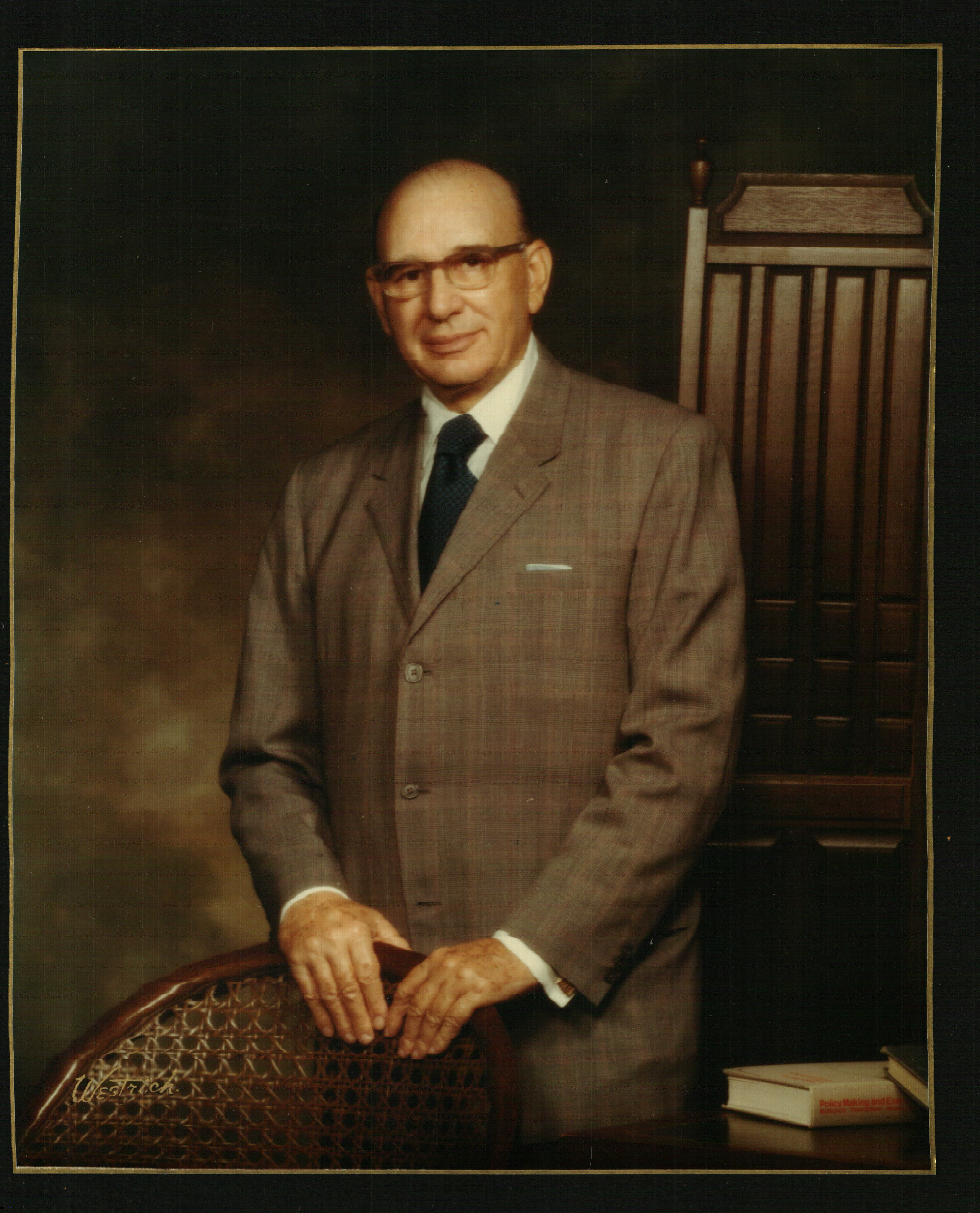 Frank P. Pellegrino, philanthropist; CEO and Chairman of International Hat Company in St. Louis, Missouri.